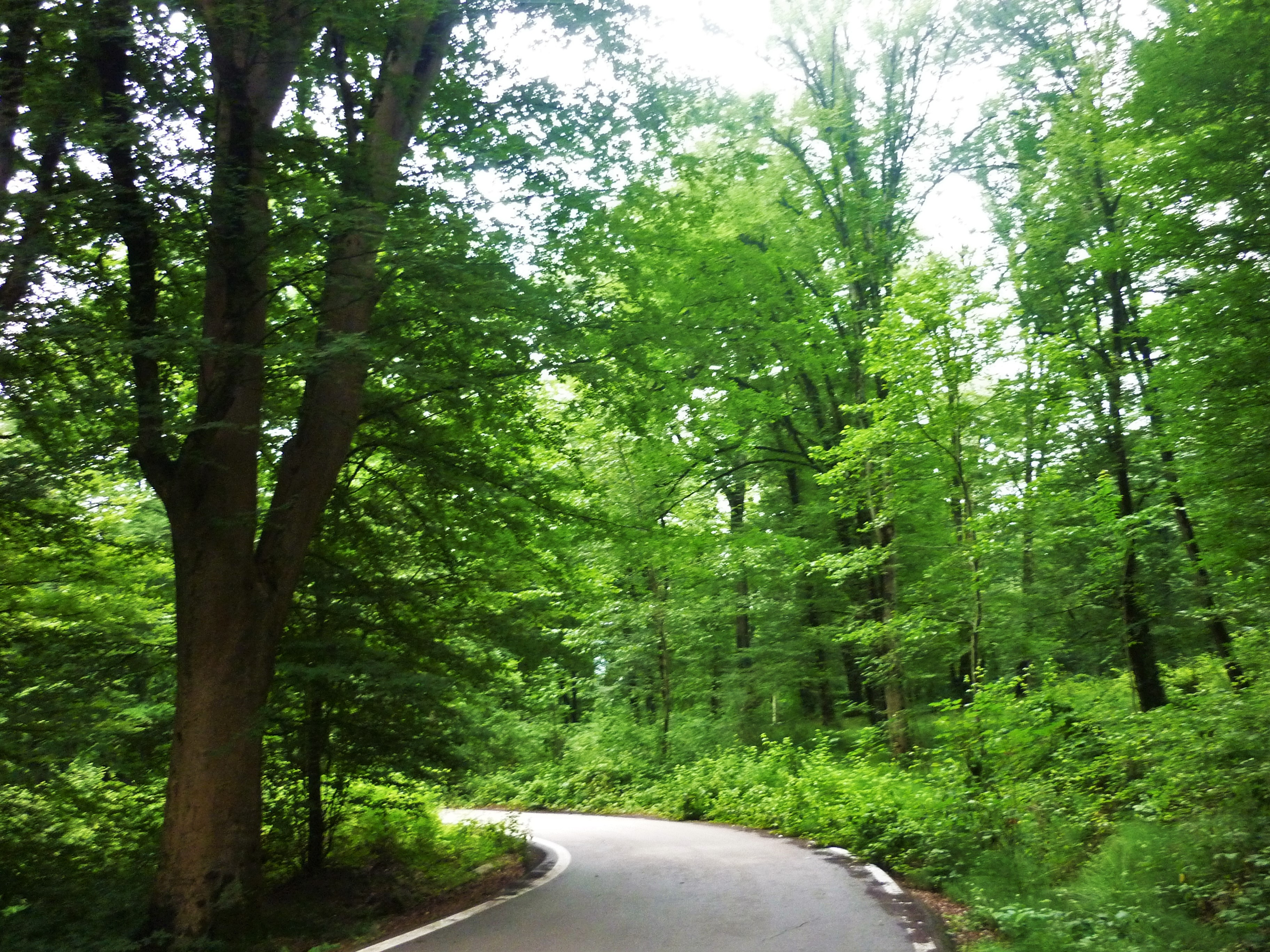 Mirza Kuchak Khan